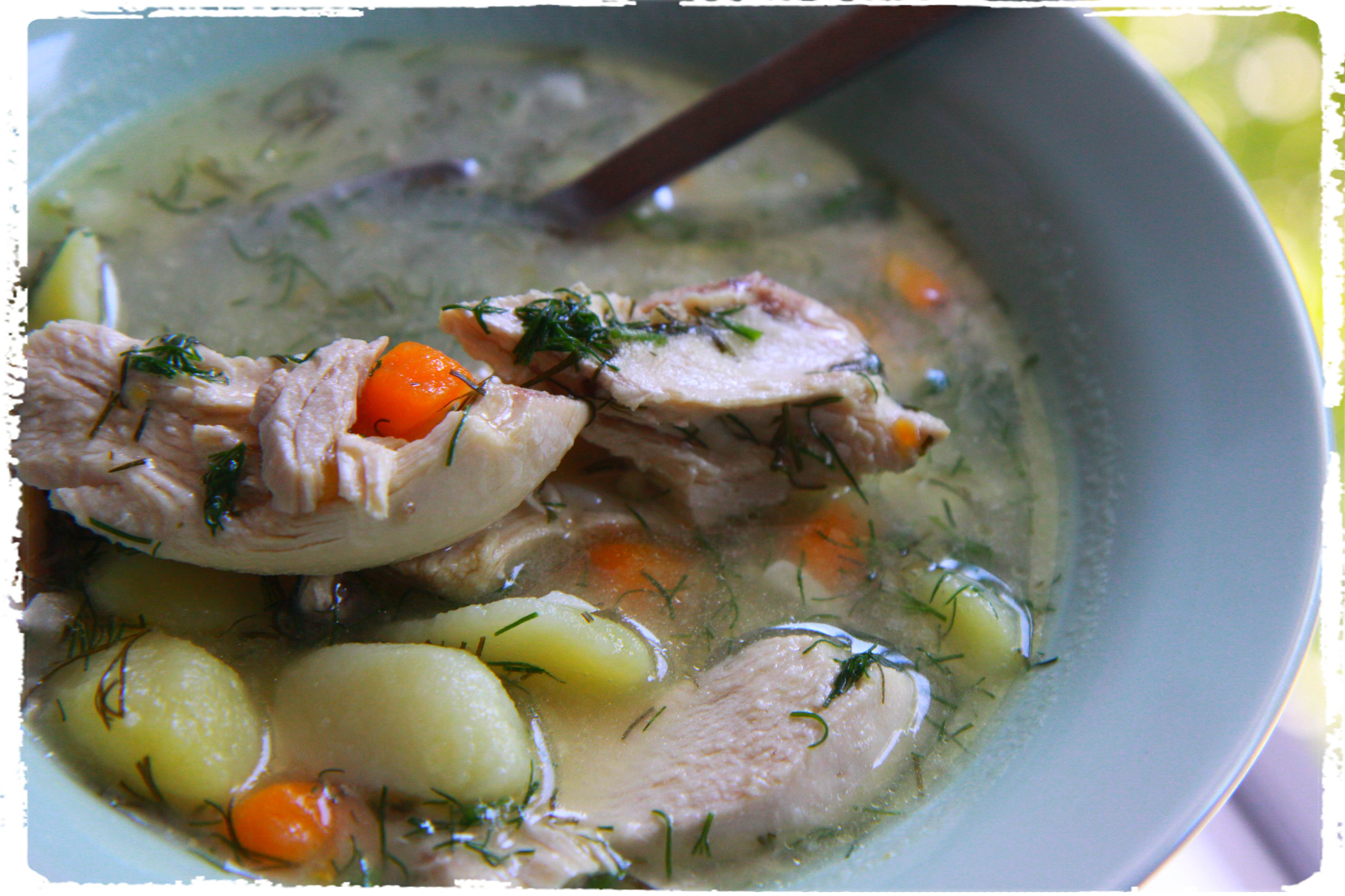 Chicken soup